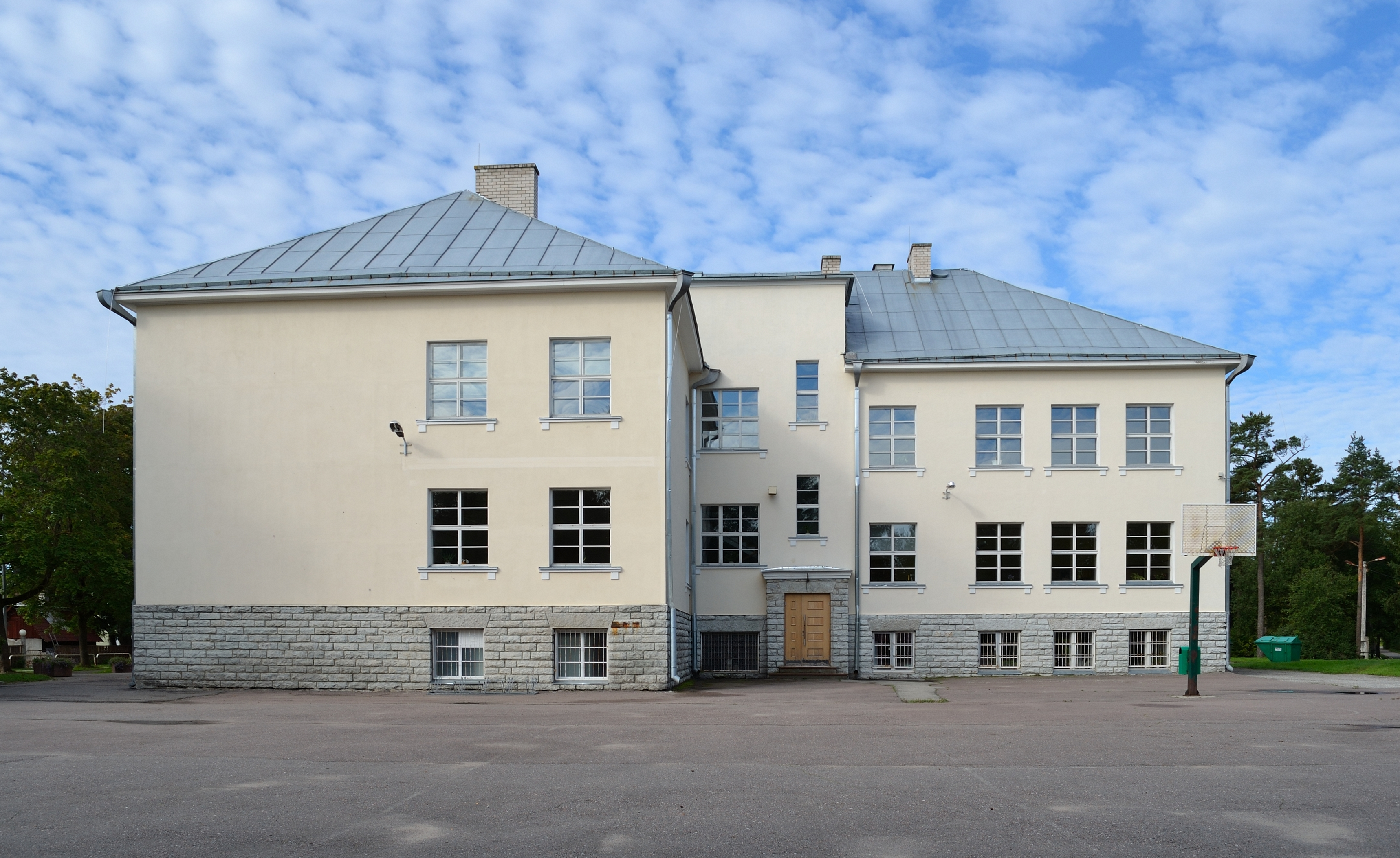 Keila elementary school building